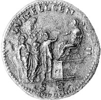 Coin of Aulus Vitellius, showing his father Lucius Vitellius during his second censorship